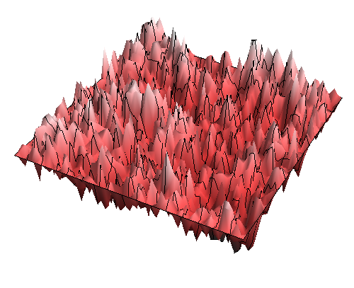 Surface plot of a discrete Gaussian free field on 60 x 60 square grid, linearly interpolated on each face.